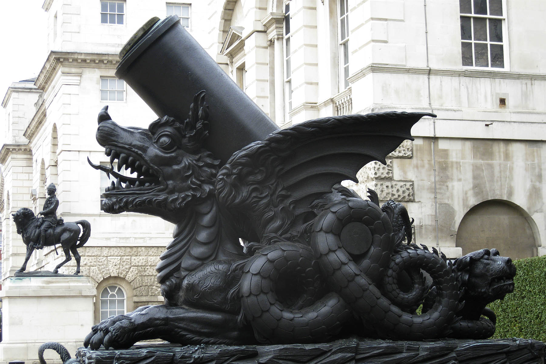 A French mortar mounted on a cast-iron dragon. It was a gift of the Spanish government to the Prince Regent in memory of the lifting of the siege of Cadiz following the defeat of the French forces near Salamanca in July 1812 by the Duke of Wellington's army. In the background an equestrian statue of Frederick Sleigh, Field Marshal Earl Roberts by Harry Bates, 1923.